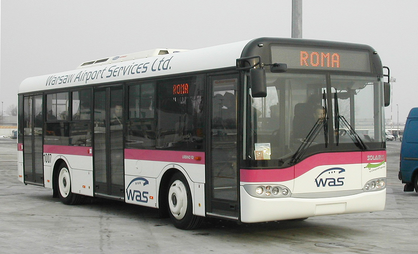 Solaris Urbino 10 airport bus (#1007) at the Okecie Airport in Warsaw, Poland. Built 2004, WAS Warszawa operator.